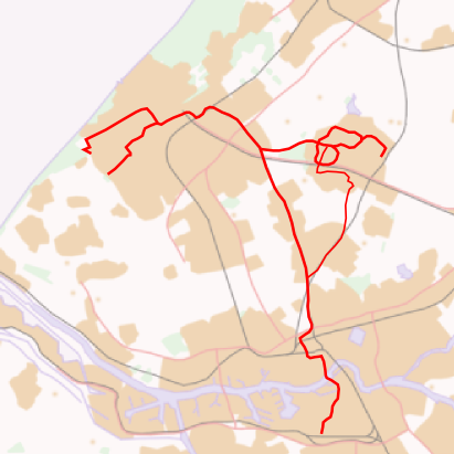 outline map RandstadRail